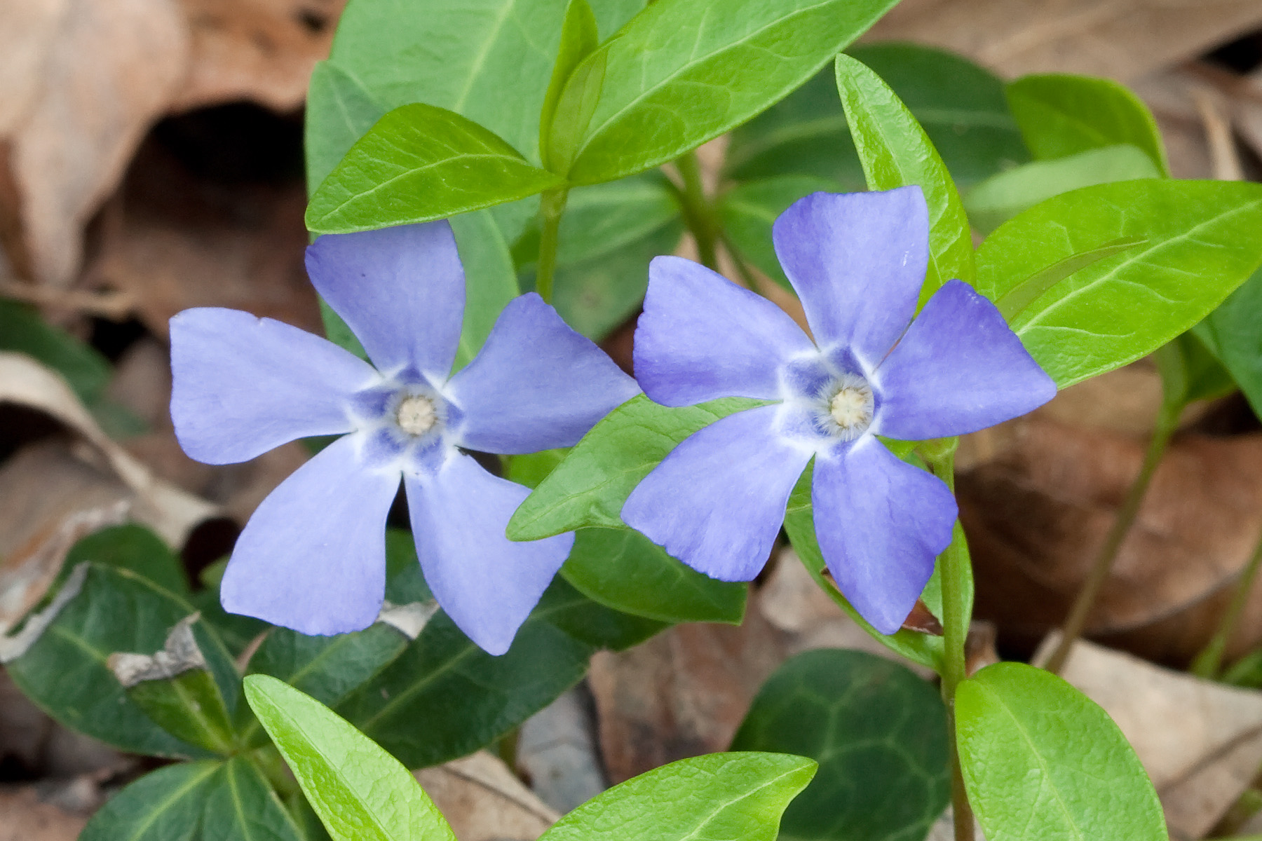 Lesser Periwinkle (Vinca minor) in Nashville, Tennessee